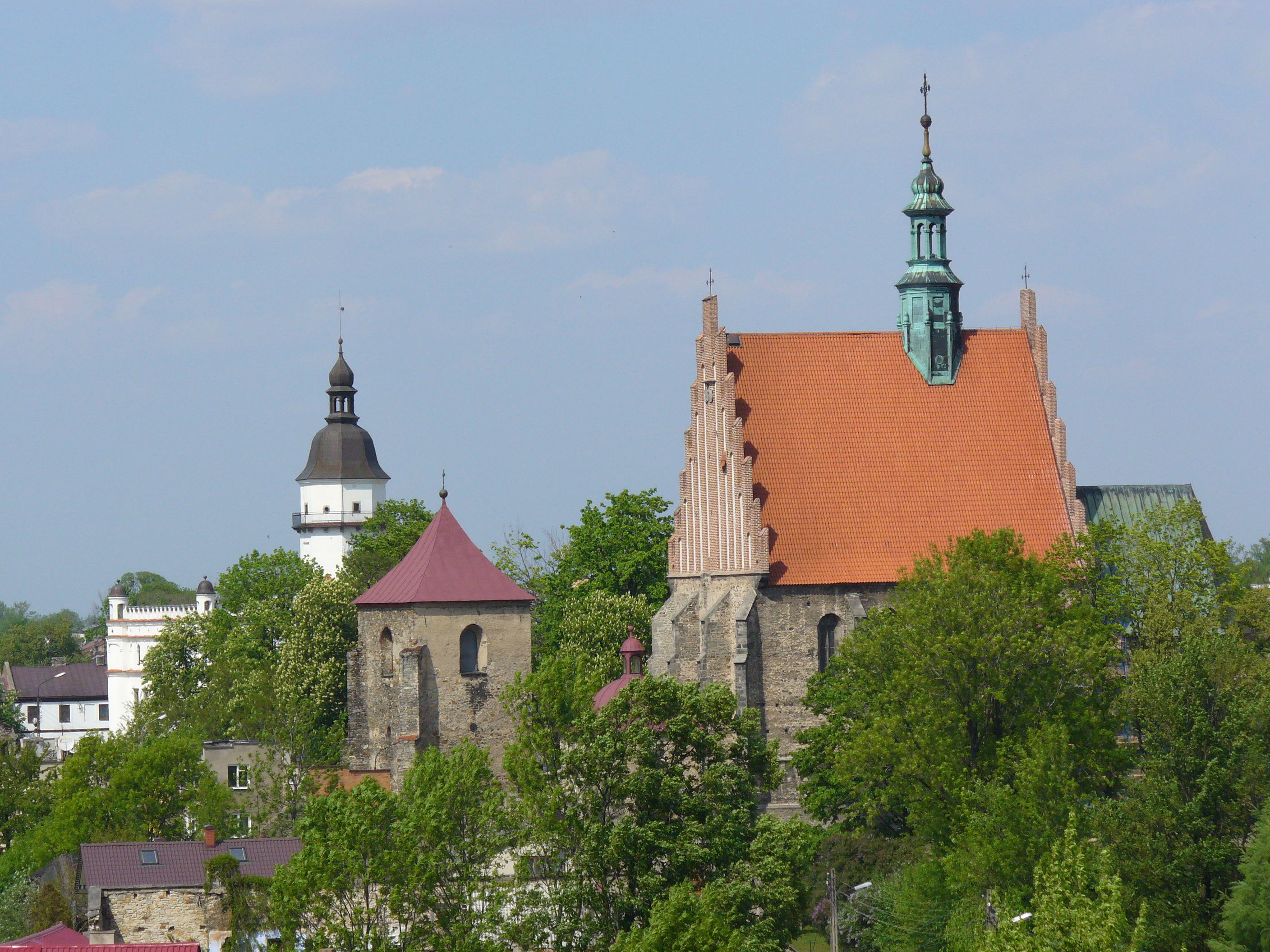 Church and town hall in Szydłowiec near Radom, Poland.